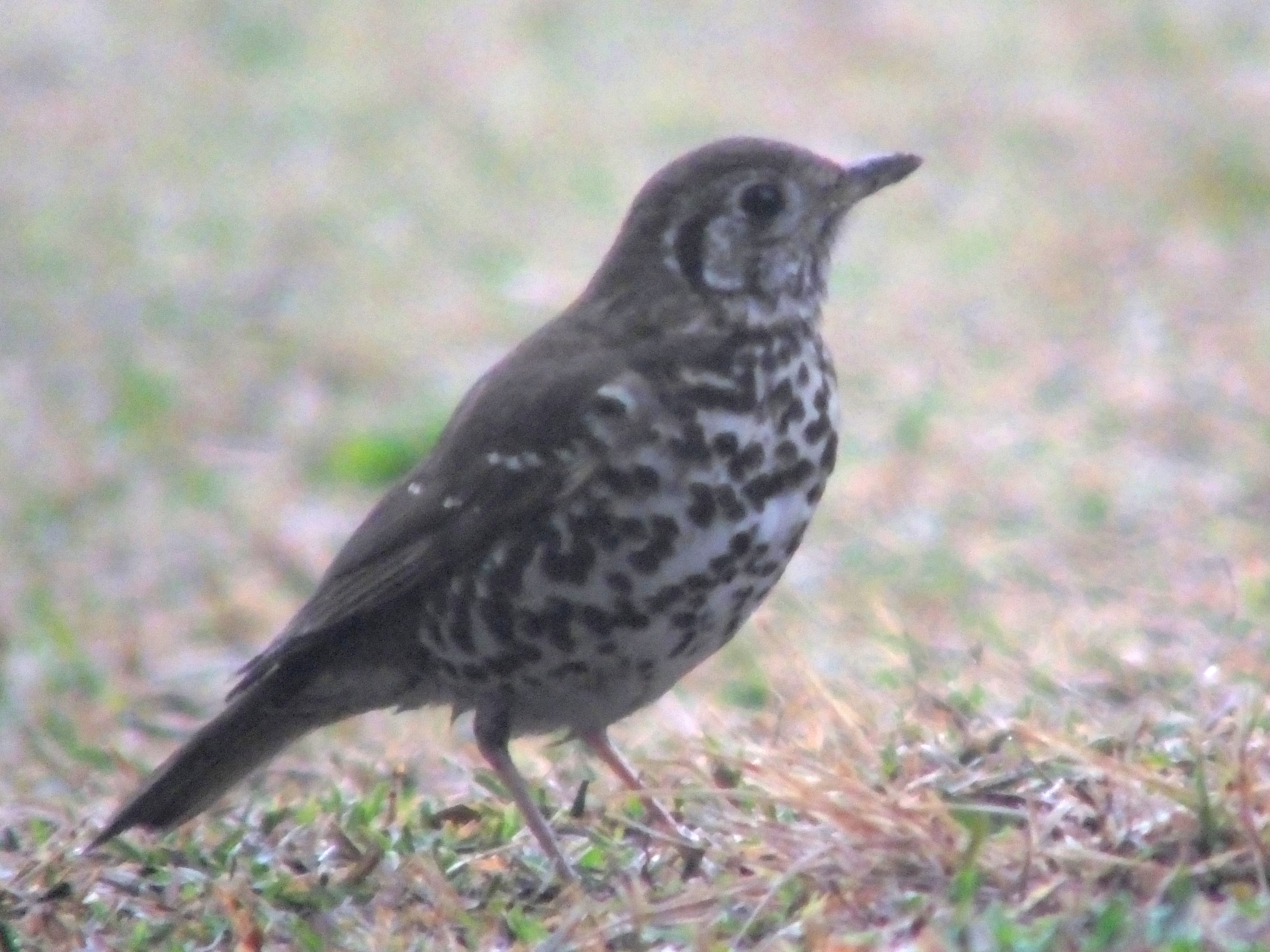 Saw at the mountain peak. Got a video as well.